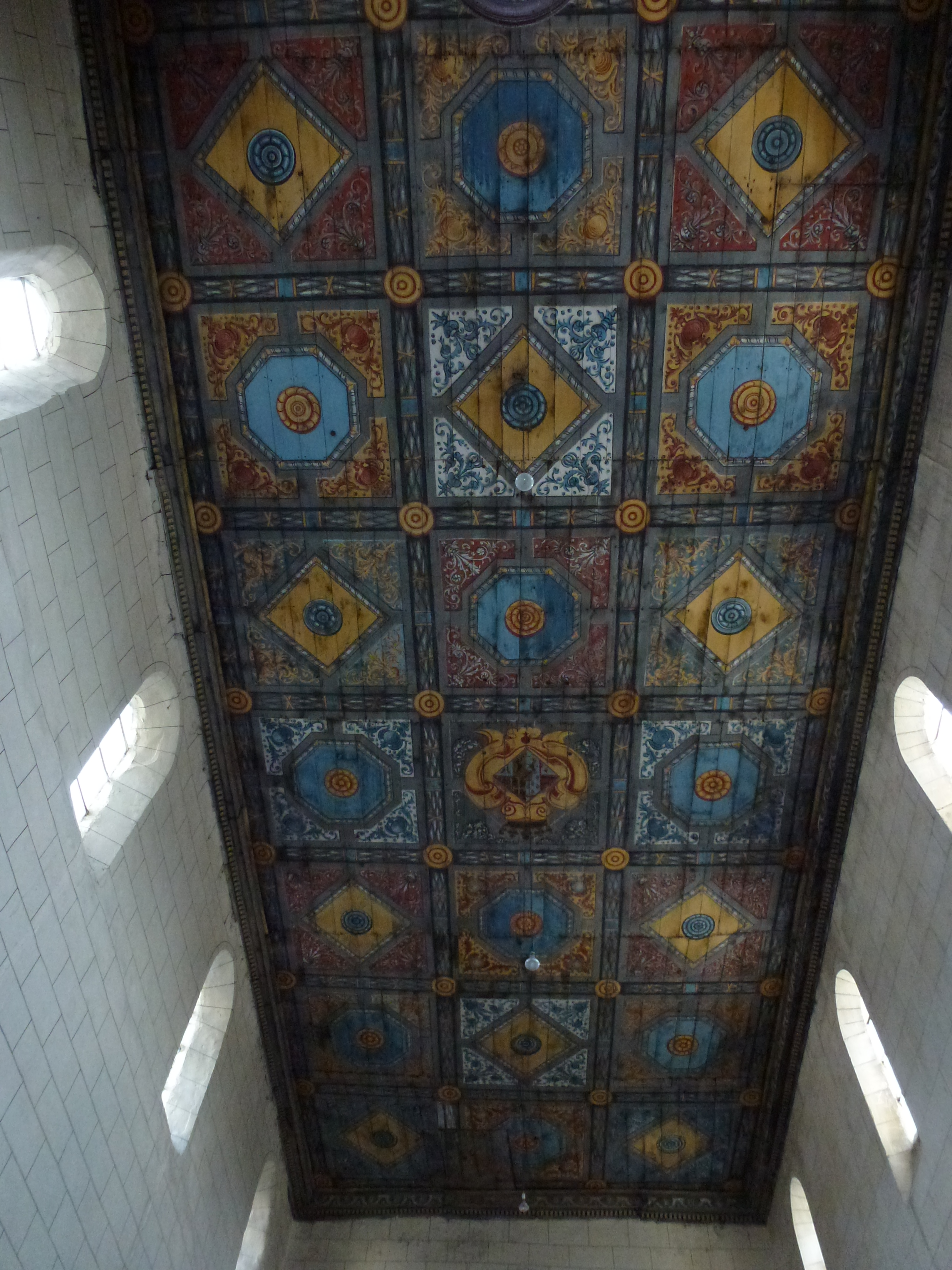 Aubenton (Aisne) Église Notre-Dame, plafond peint